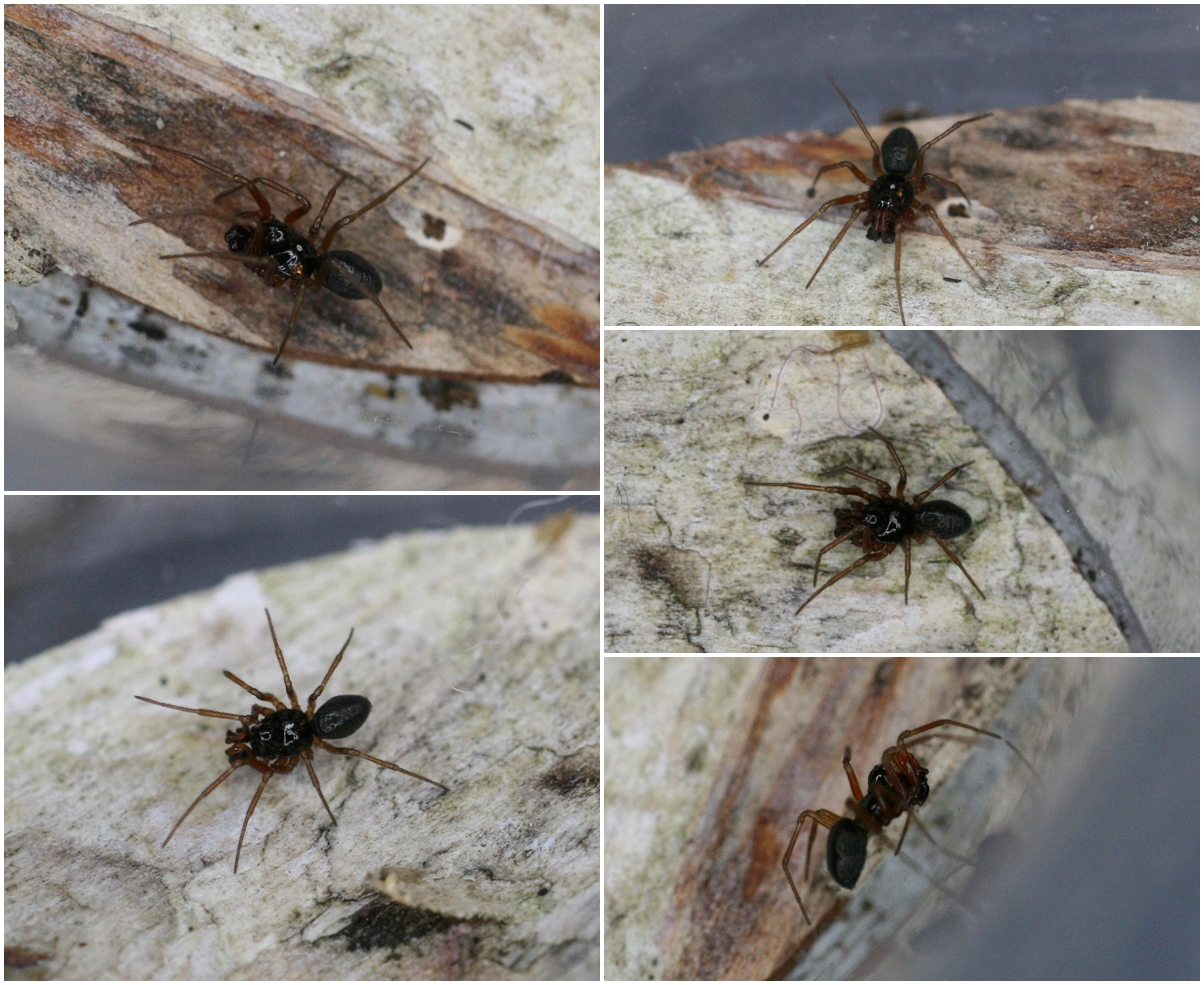 Male found at the Riverside Road Watercress Beds local nature reserve in St. Albans, Hertfordshire, 3rd May 2014.